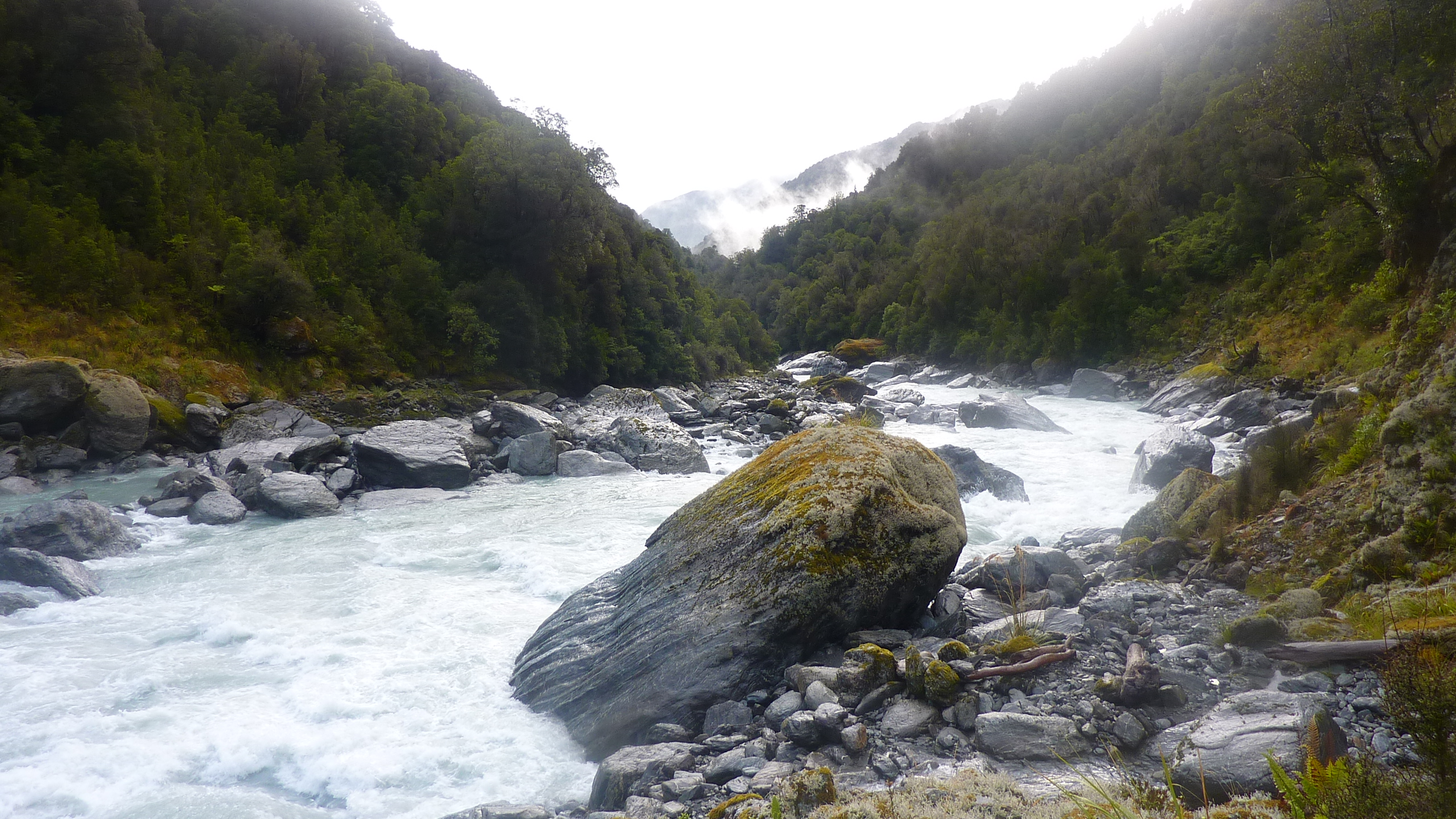 Whitcombe River - upper reaches